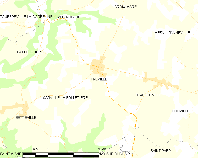 Map of French municipality Fréville